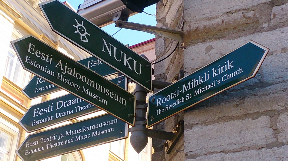 A bunch of Singposts in Tallinn, Estonia